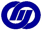 Kawabe Gifu chapter